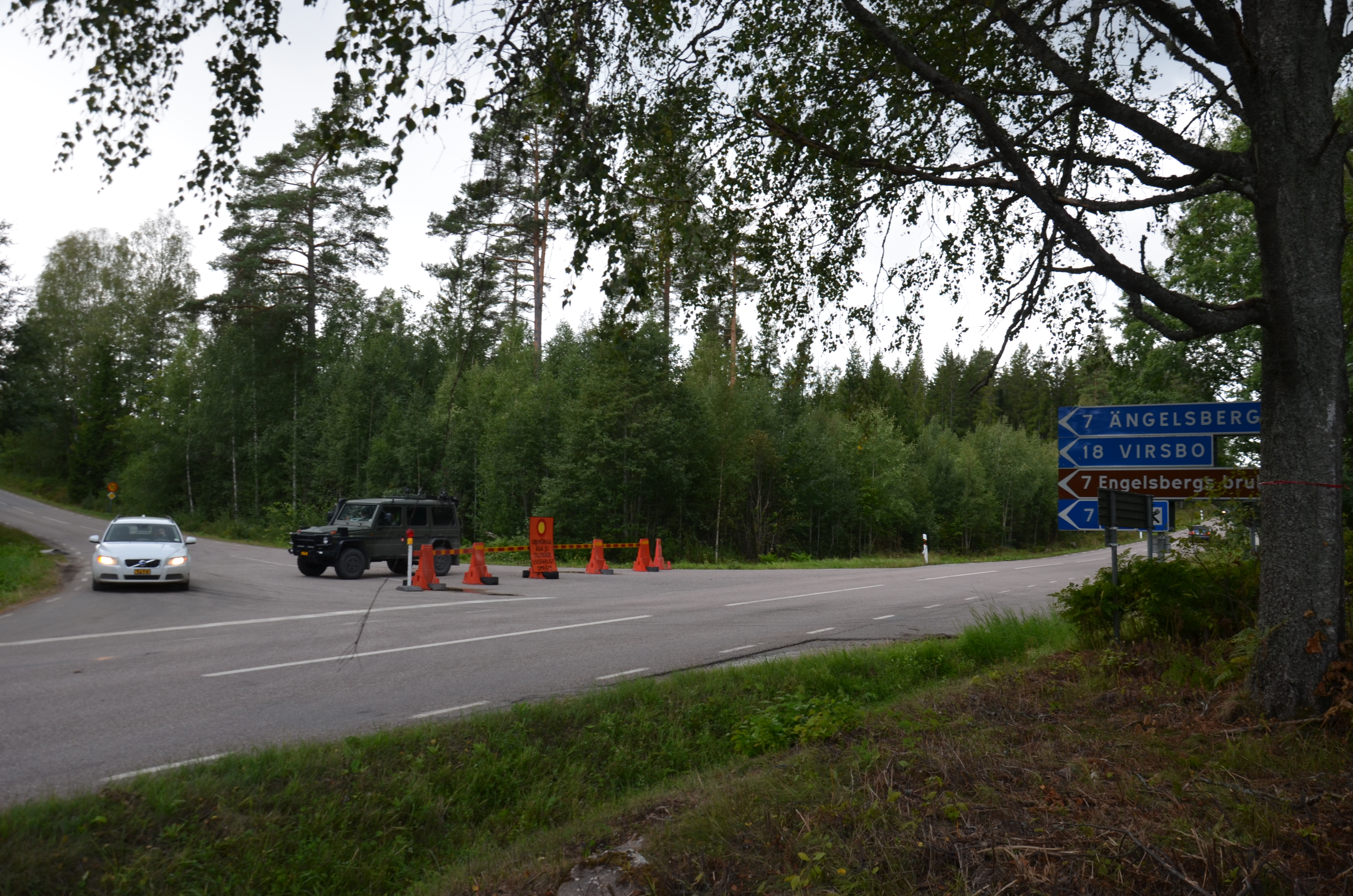 military police post at wild fire area, Norberg